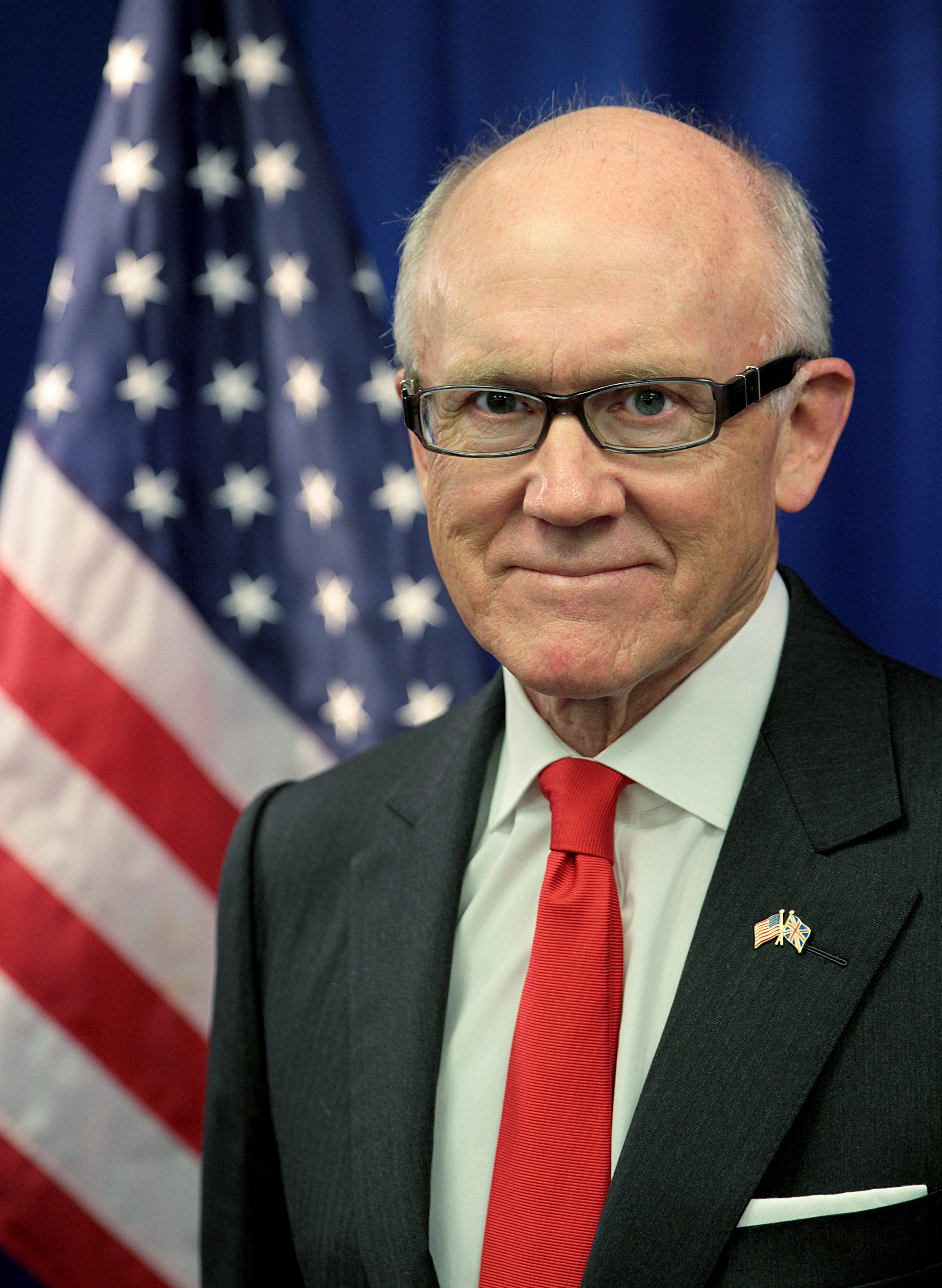 Woody Johnson official portrait version 2